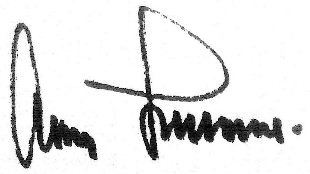 Signature from Adolf Galland